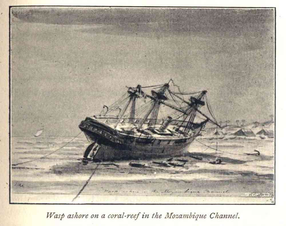 The Archer-class sloop HMS Wasp (1850) aground on a coral reef 35 nautical miles (65 km; 40 mi) south of Cape Delgado on the east coast of Africa in January/February 1861